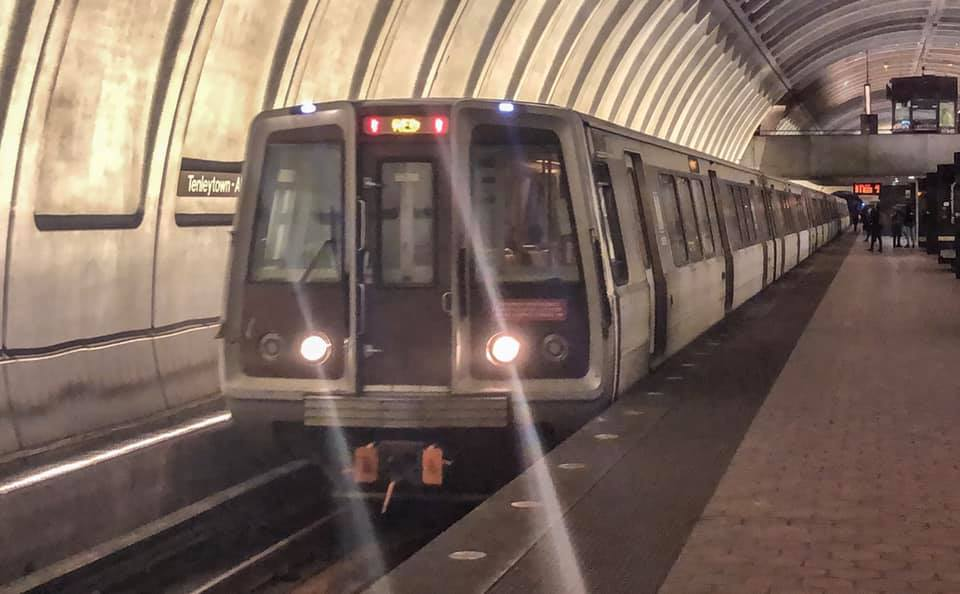 WMATA Breda 3000 Series At Tenleytown-AU